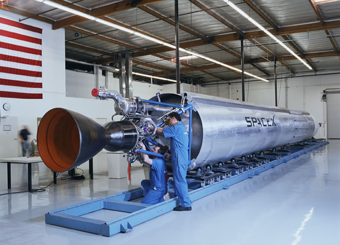 Falcon rocket, Space Exploration Technologies, (SpaceX) (See talk page for GFDL permission notes and SpaceX contact information) Note: this was the cover shot for a spring, 2004 issue of Aviation Week & Space Technology.